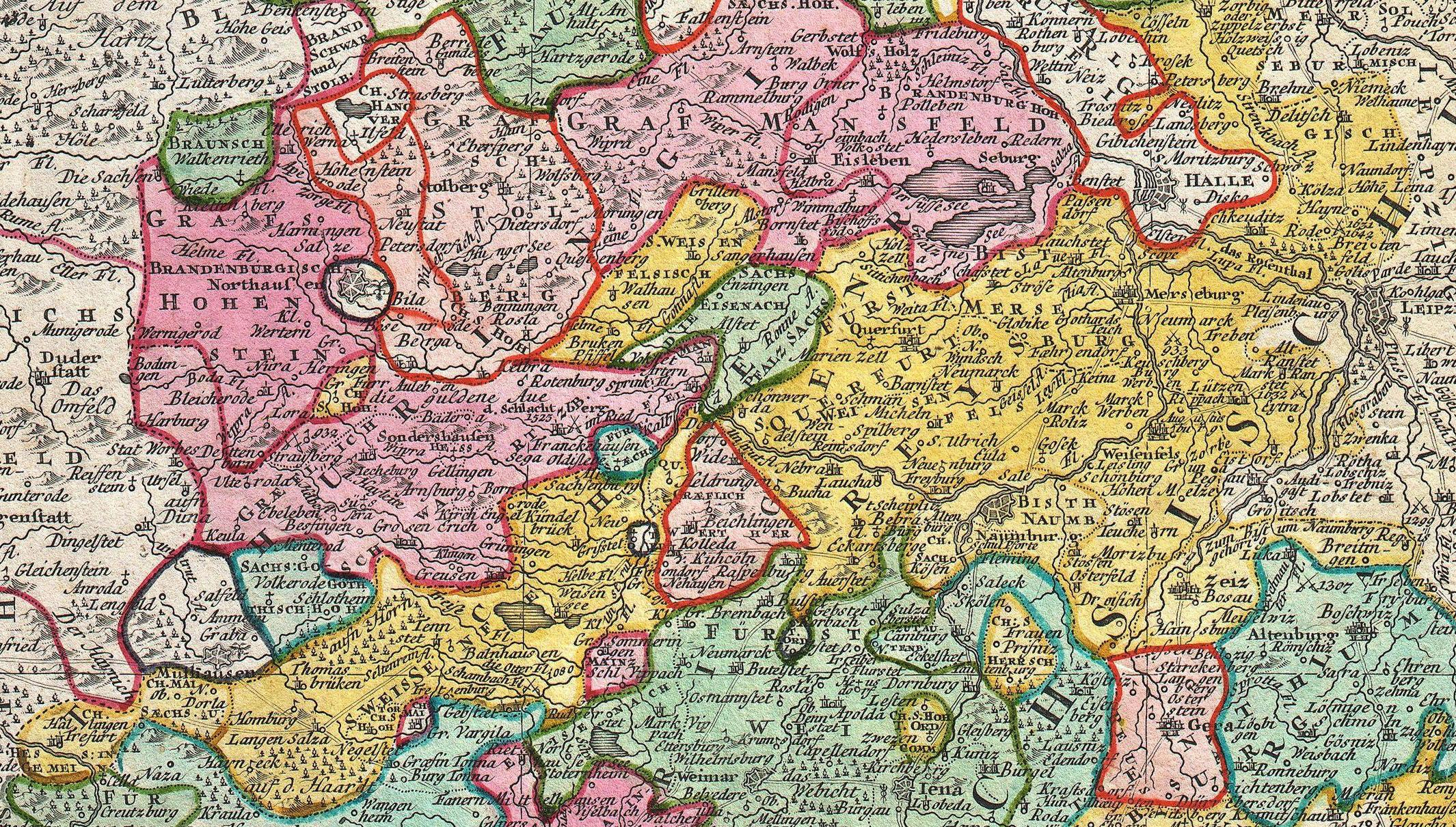 A fine example of the Homann Heirs map of Saxony, Germany. Covers from Berlin in the north, to Prague in the southeast and Efurt in the west. The map is filled with information including fortified cities, villages, roads, bridges, forests, battlefields, castles and topography. Title cartouche in the upper left quadrant features a wonderful mining vignette, the Greek god Hermes, and a warrior figure with a shield featuring the head of Medusa. Prepared in Nuremberg by the engravers Adam Friedrich Zürner and Zolman for issue in Homann Heirs’ Maior Atlas Scholasticus .